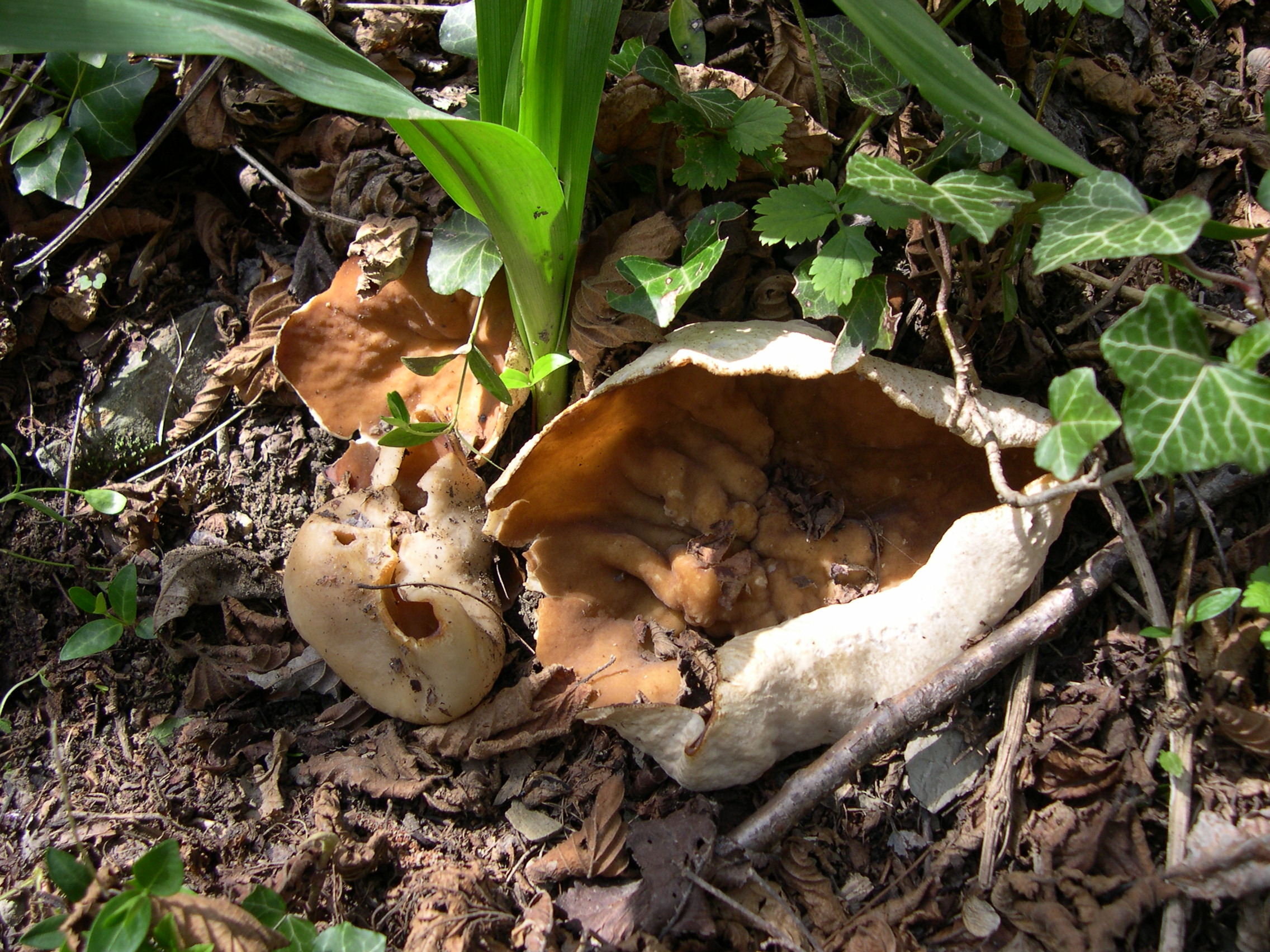 Disciotis venosa (Pers.) Arnould, 1893